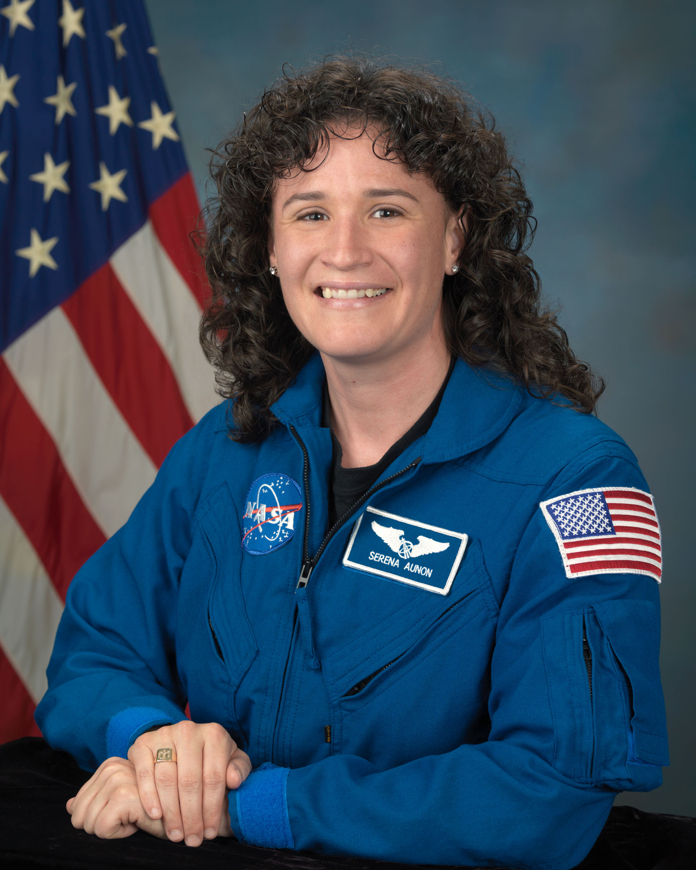 Serena M. Aunon, NASA astronaut candidate class of 2009